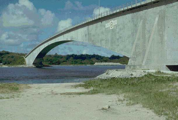 Former Koror-Babeldaob Bridge